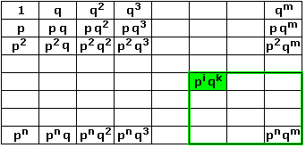 Zahlentheoretisches Beispiel zum Chomp-Spiel - Number theoretic example for the game Chomp